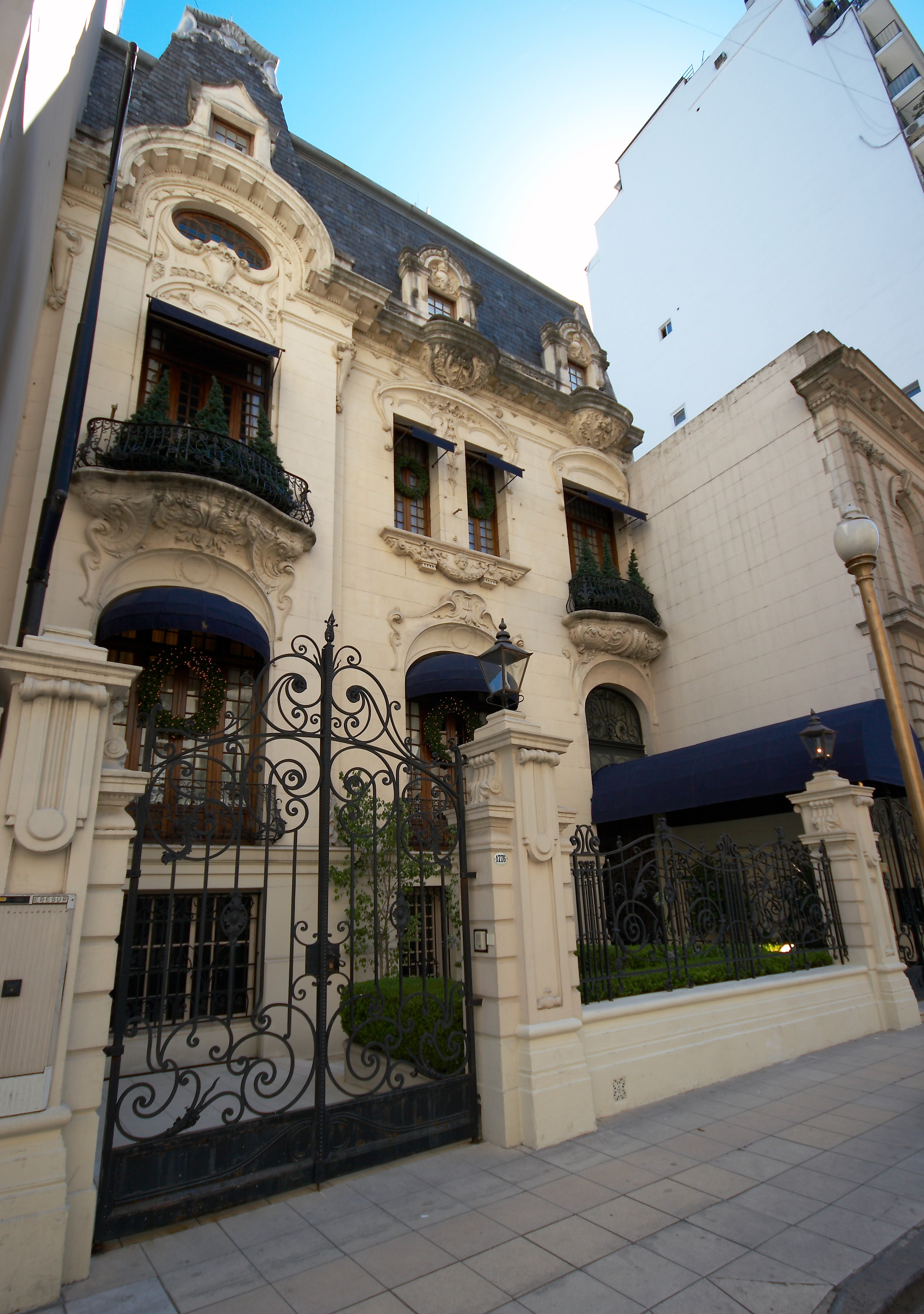 Alvear avenue, Buenos Aires, Argentina.